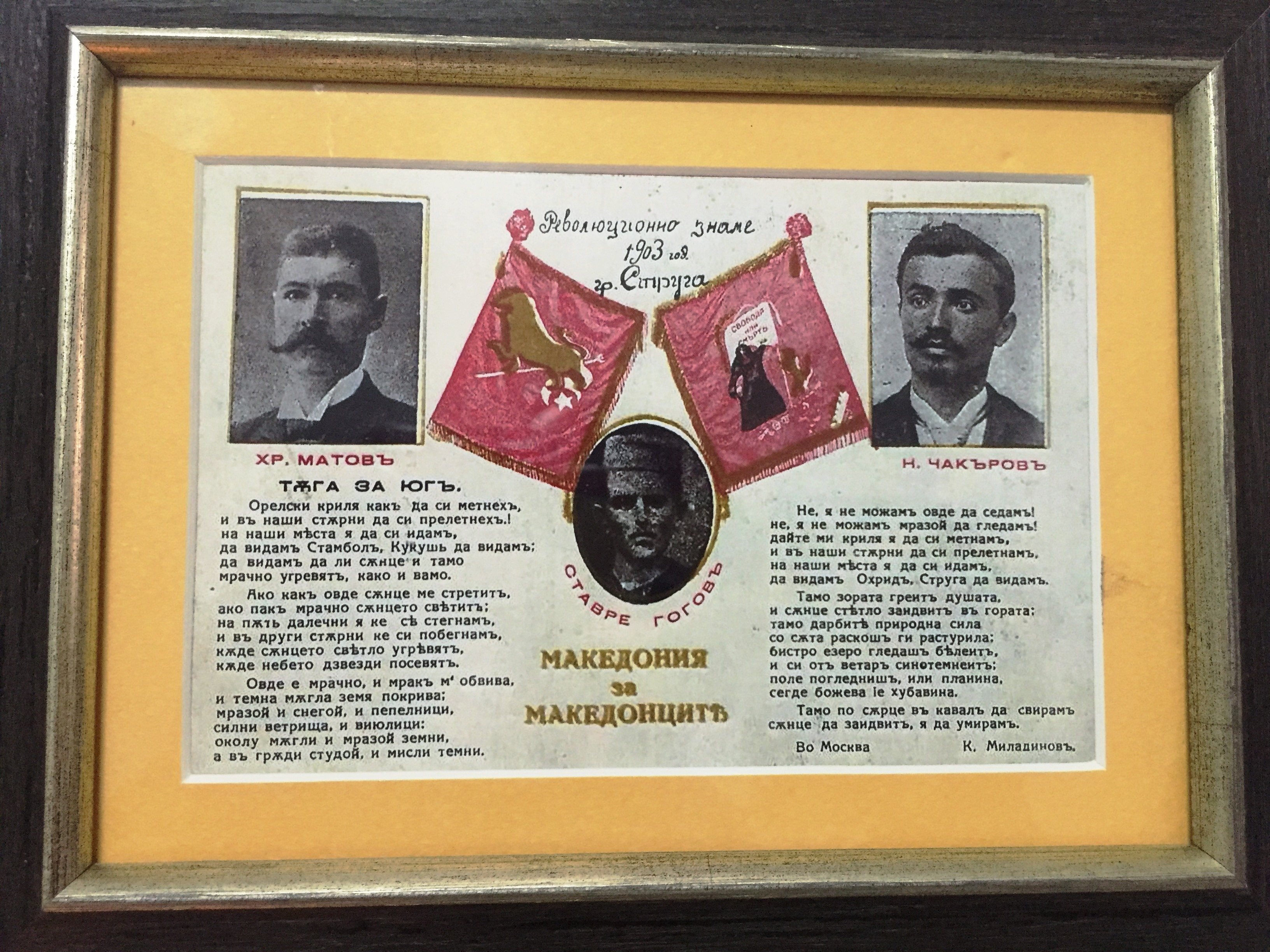 A postcard with the original text of the famous poem "Tаga za Yug" (Macedonian: Т’га за југ; Bulgarian: Тъга за юг